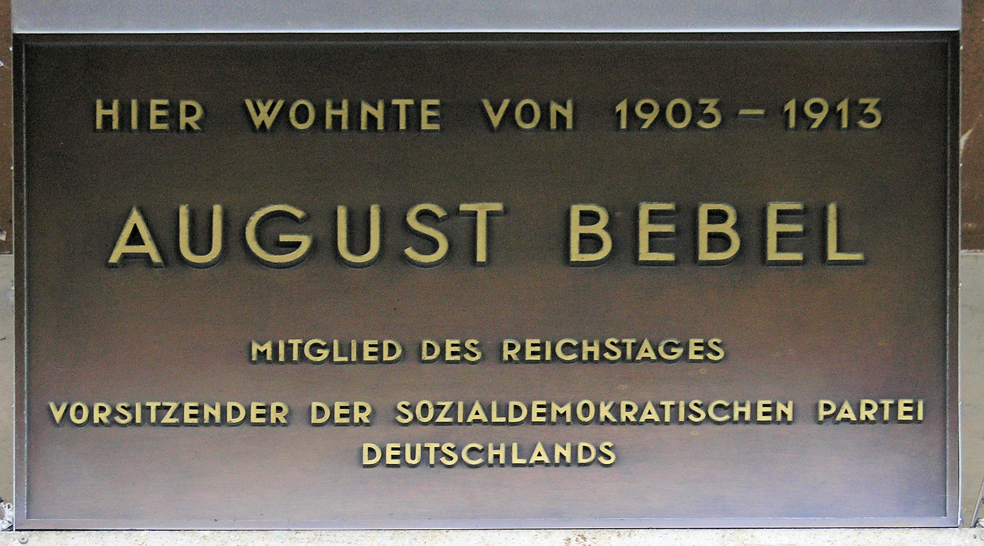 Memorial plaque, August Bebel, Hauptstraße 97, Berlin-Schöneberg, Germany Koordinate:52°28′44″N 13°20′42″E / 52.47889°N 13.345°E